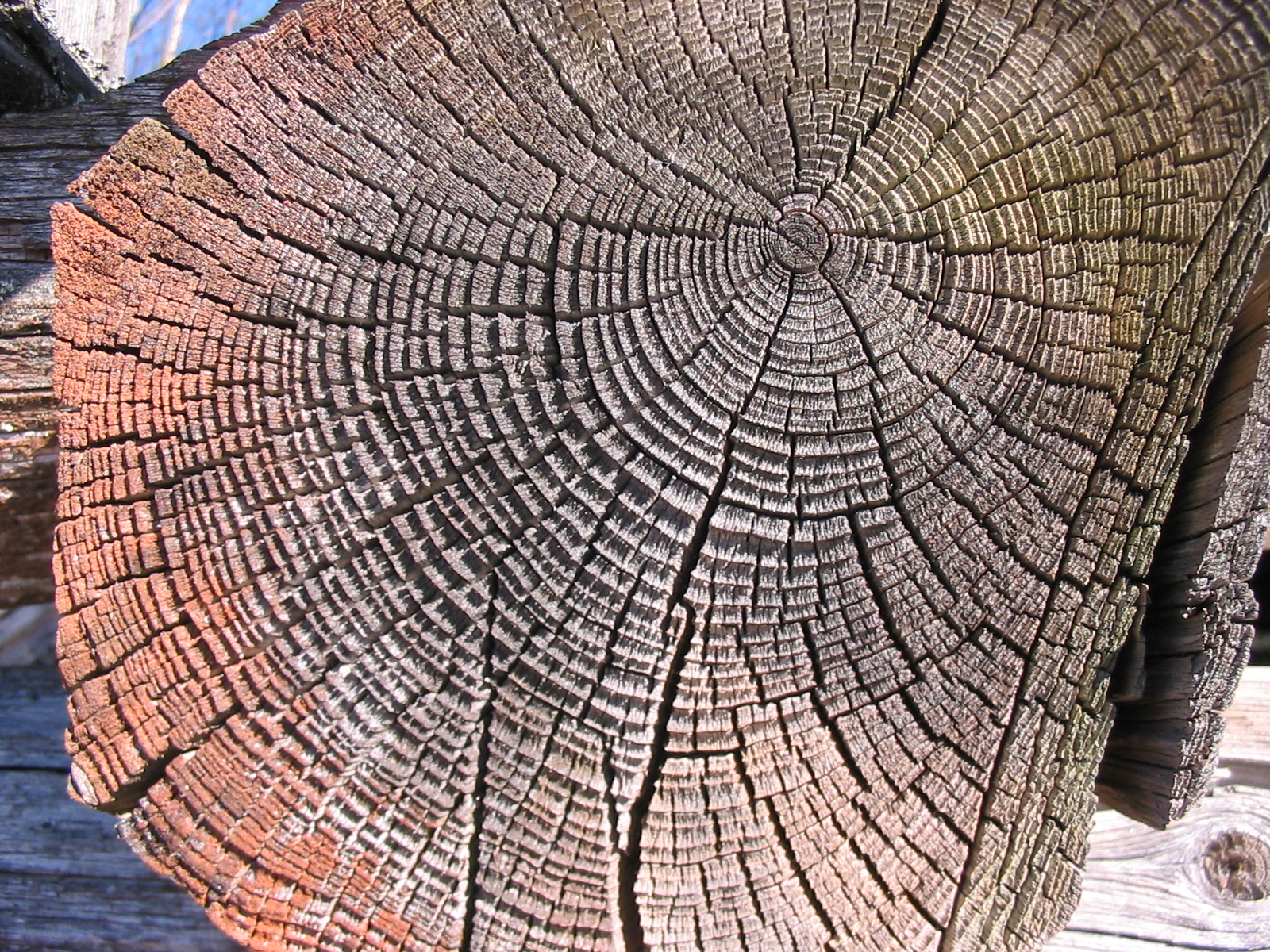 cut off